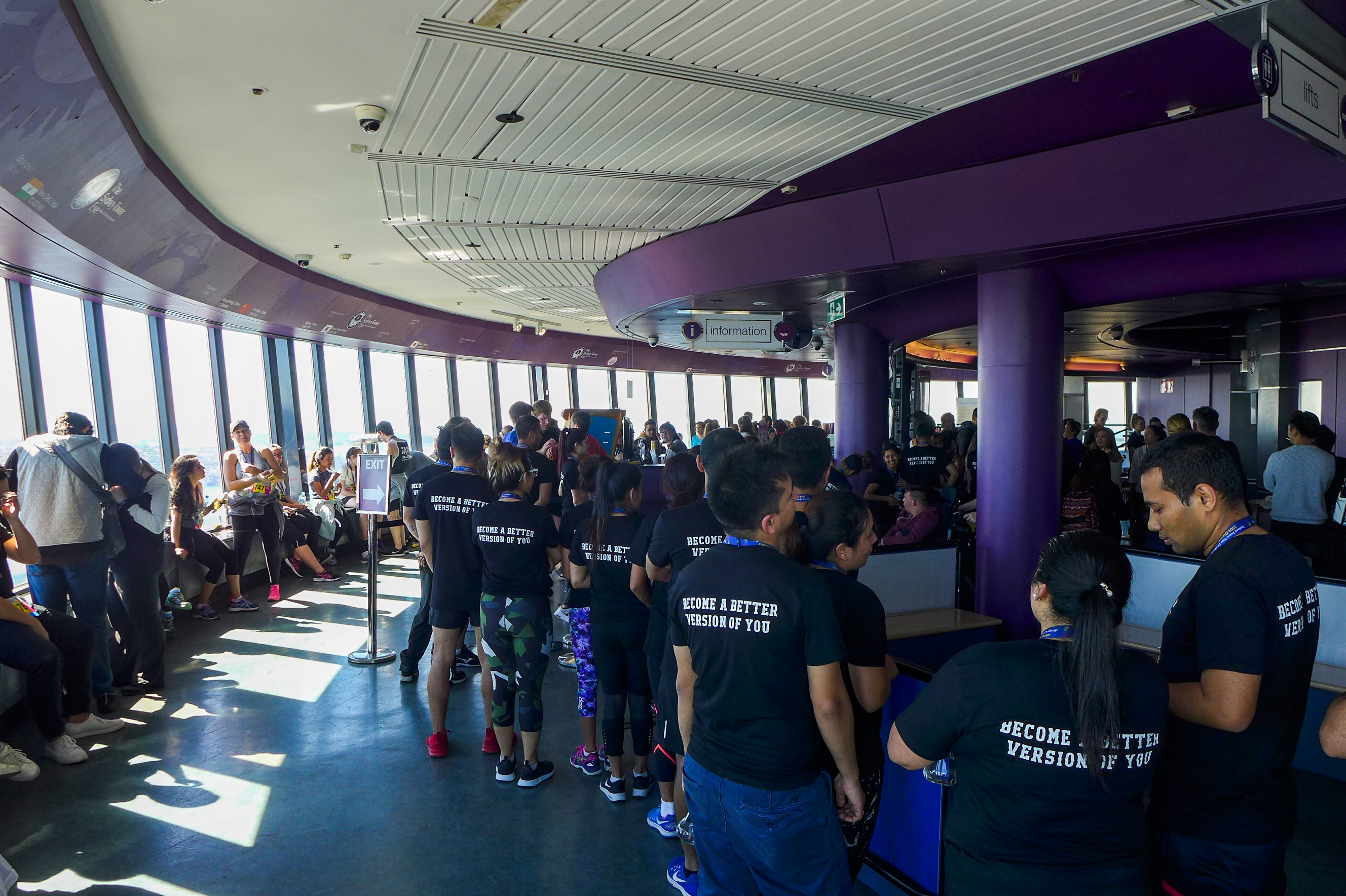 Sydney Tower Eye interior